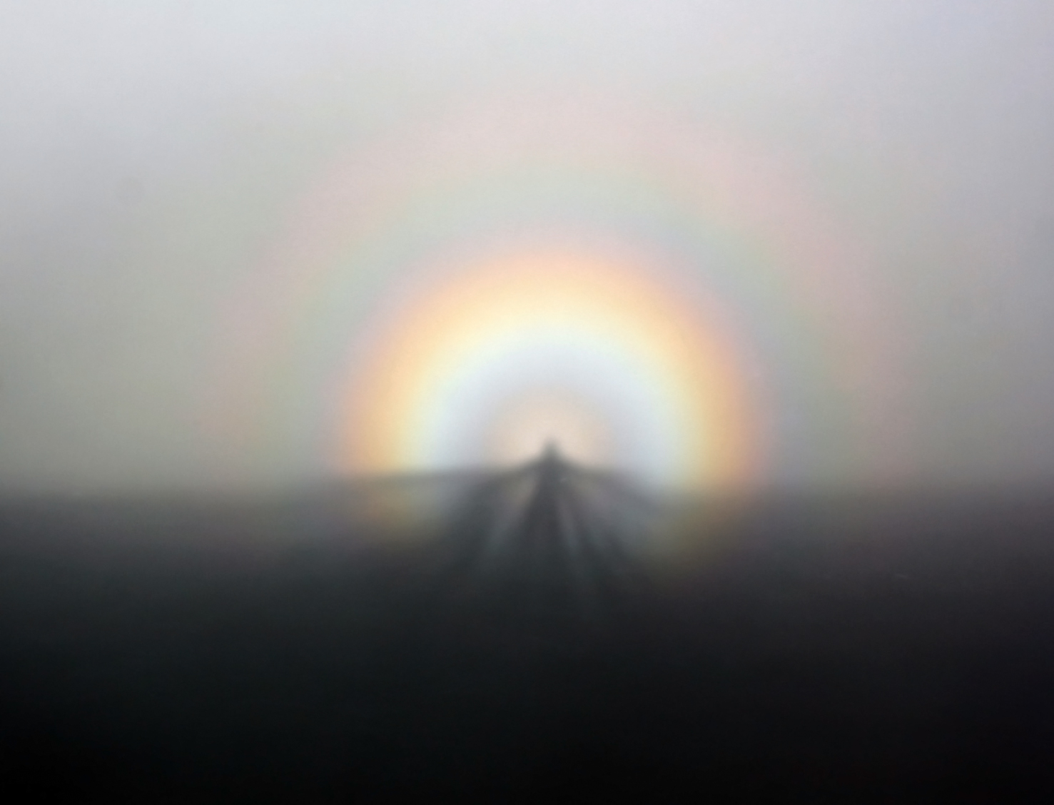 The picture was taken from Golden Gate Bridge. The picture shows solar glory and Spectre of the Brocken